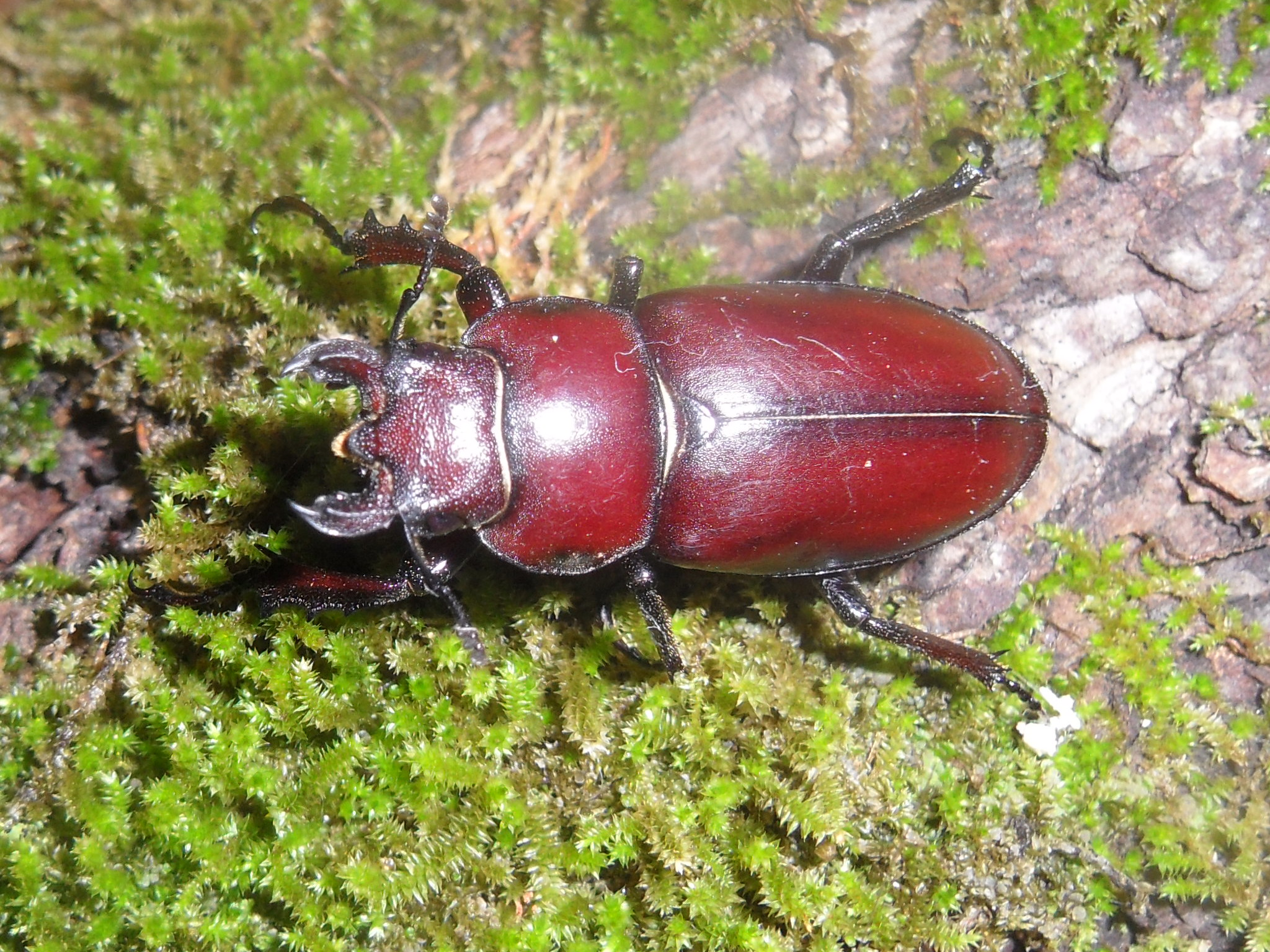 Adult female Lucanus elaphus. 29mm in length.